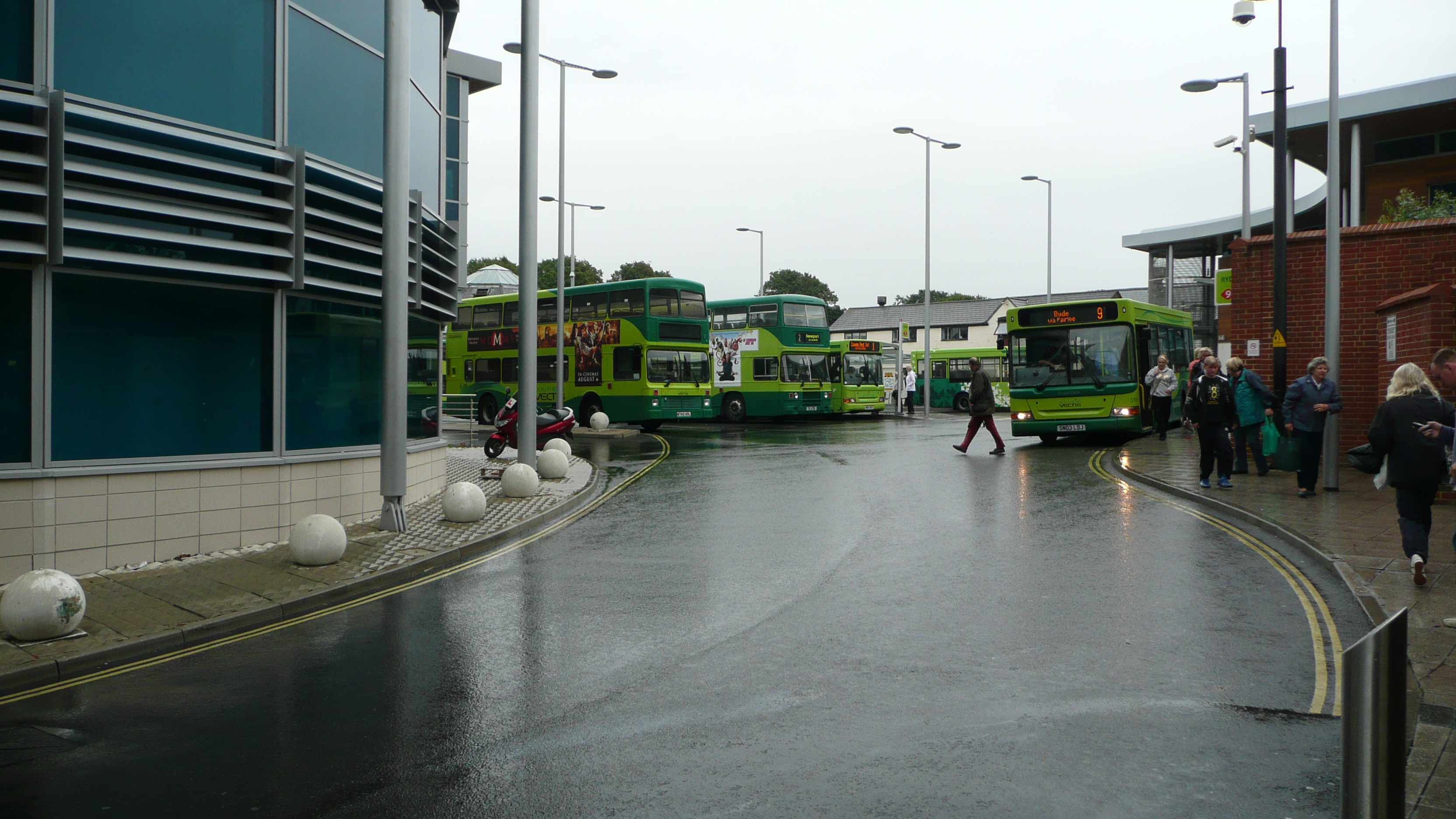 A view taken from Stand A of Newport bus station on the Isle of Wight, looking towards Stand B on the right by the brick wall, and on the left the bus parking area, with the two double deckers in it. The single decker which the front of can be seen in the middle is on Stand E.